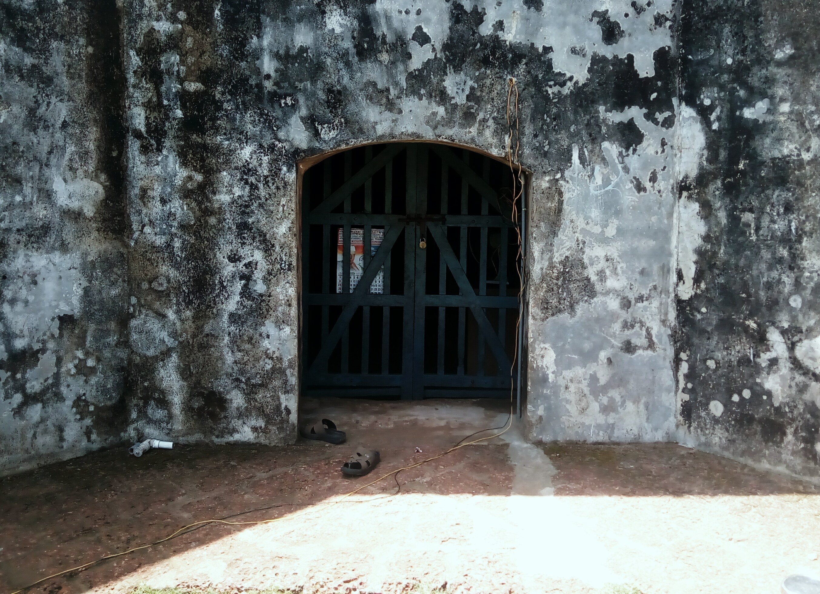 Anjuthengu Fort Tunnel